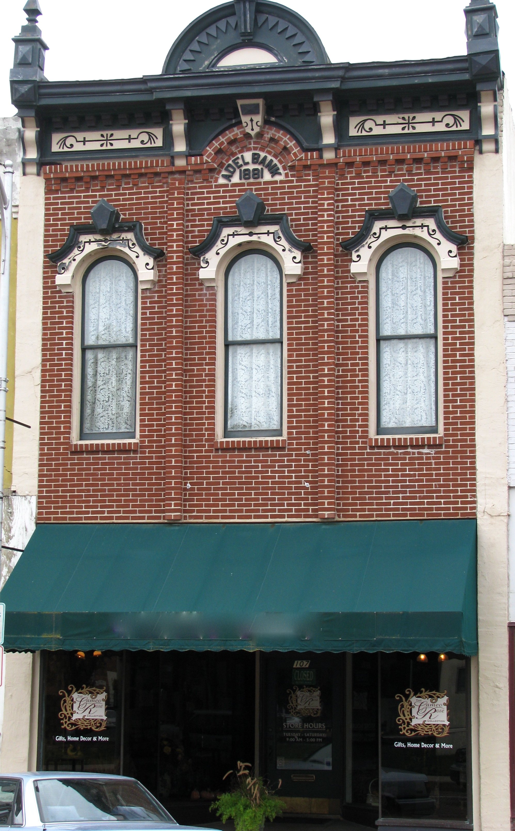 Photo of the bank building during the 1896 Adel bank robbery. Today, this bank building is part of the Adel Public Square Historic District, a historic district that is listed on the National Register of Historic Places.